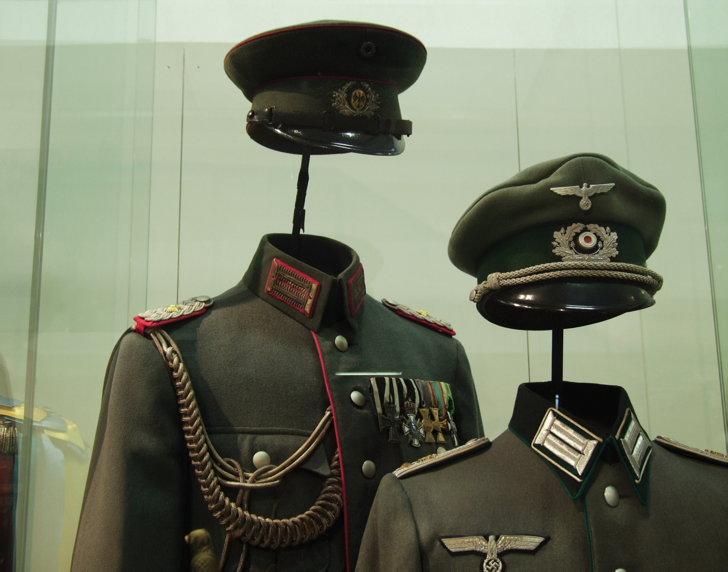 German military uniforms (Reichswehr - on the left, Nazi Germany - on the right). Militärhistorisches Museum der Bundeswehr, Dresden